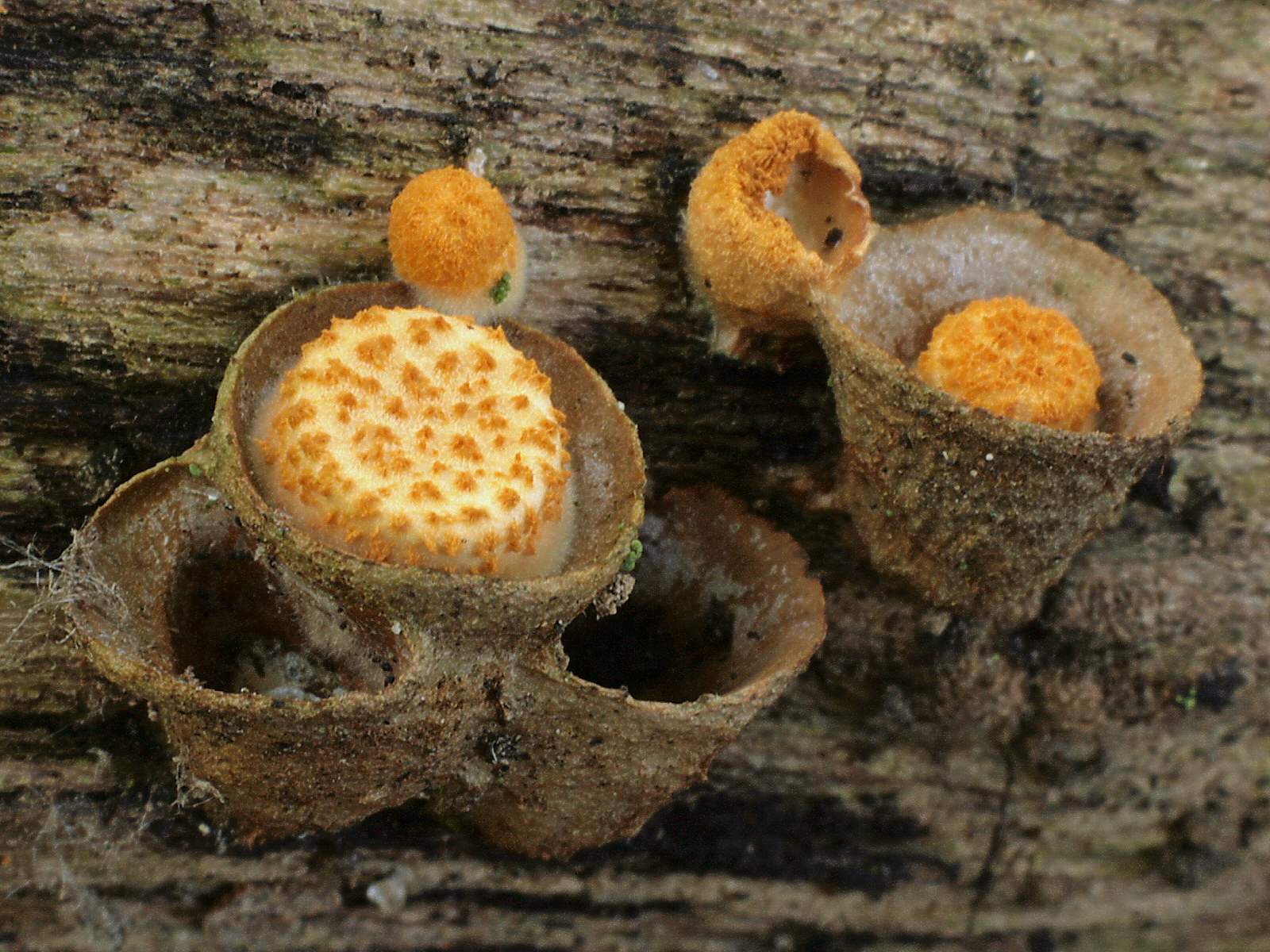 Crucibulum laeve (Huds.: Relh) Kambly